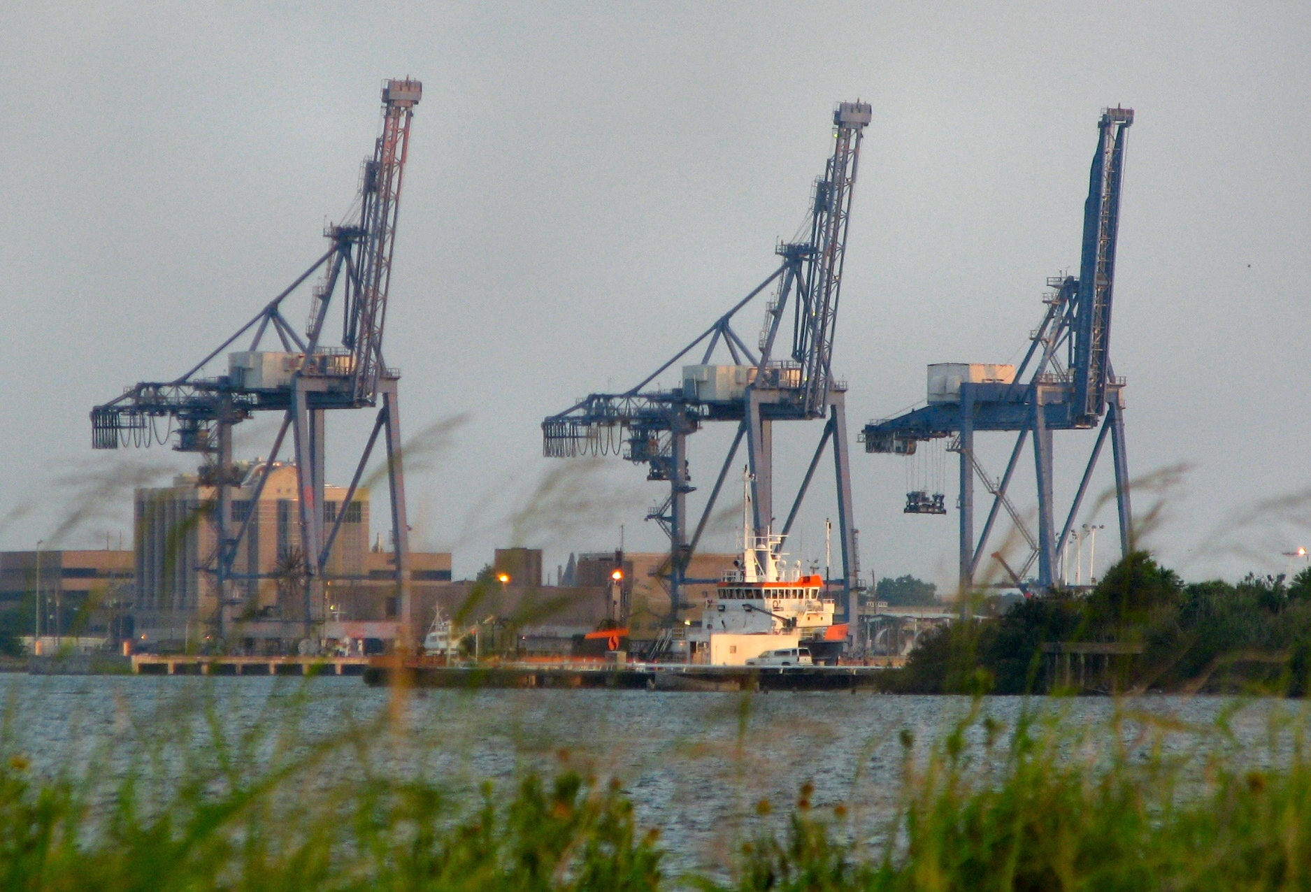 Port cranes, Galveston, Texas Photo taken by myself from the entrance to Seawolf Park on Pelican Island.